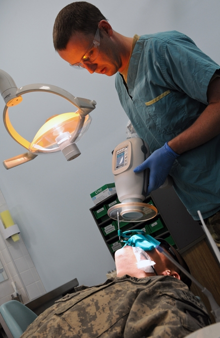 Photo Credit: Spc. Jonathan W. Thomas, 16th Mobile Public Affairs Detachment. Sqn. Ldr. Colin Pratt, general dentist, Royal Air Force Leuchars, captures a digital X-ray image of his patient's teeth, April 6, 2011. The system weighs five and a half pounds, which is 20 pounds less than older systems. Unlike previously systems, the Nomad captures digital X-ray images and doesn't require a darkroom.